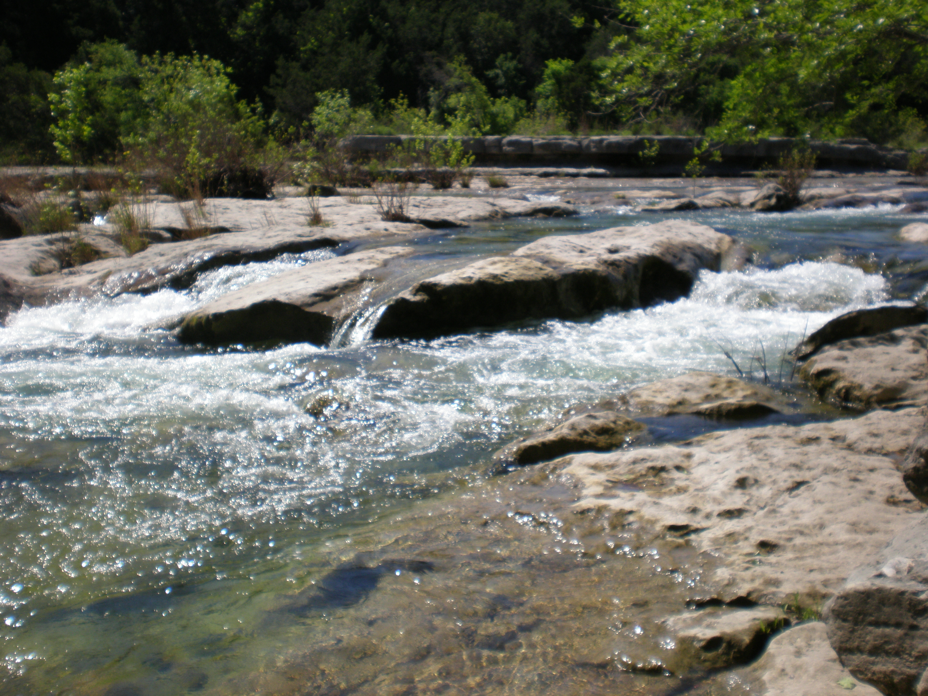 Barton Creek Greenbelt during the rainy season, river rapids over the rocks.